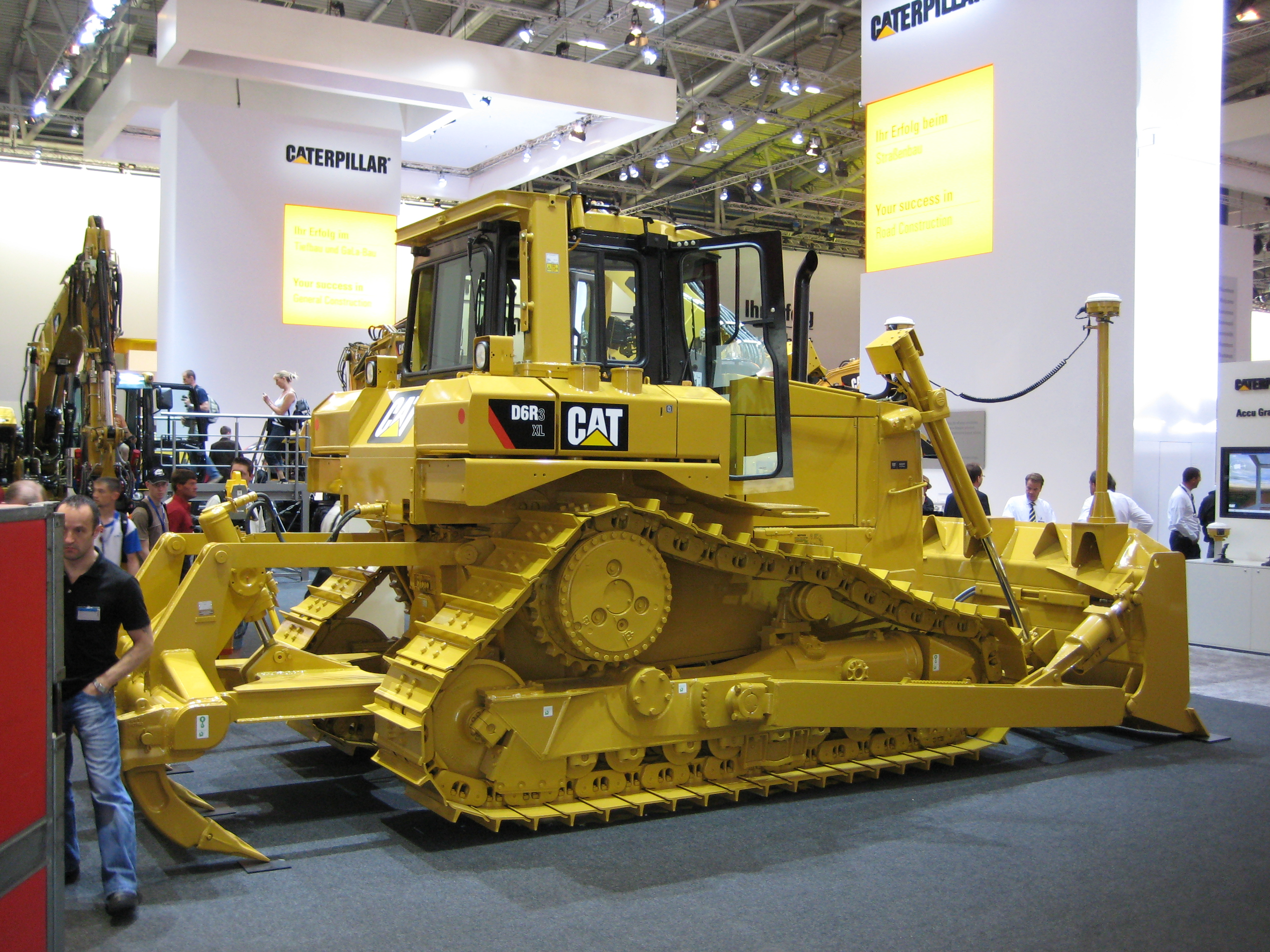 BAUMA 2007, Bulldozer, Caterpillar